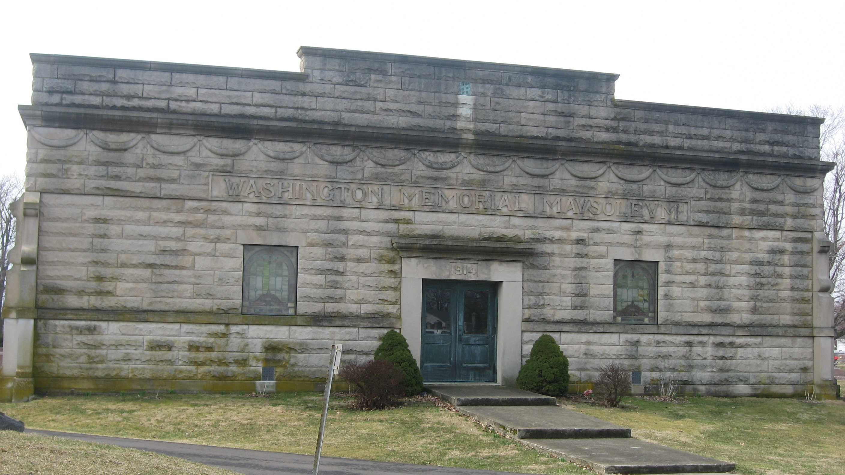 Front of the Washington Memorial Mausoleum in Washington Cemetery, located at 1741 Washington Avenue (U.S. Route 22) in Washington Court House, Ohio, United States. Built in 1914, it is an important part of the cemetery, which has been named a historic district and listed on the National Register of Historic Places.